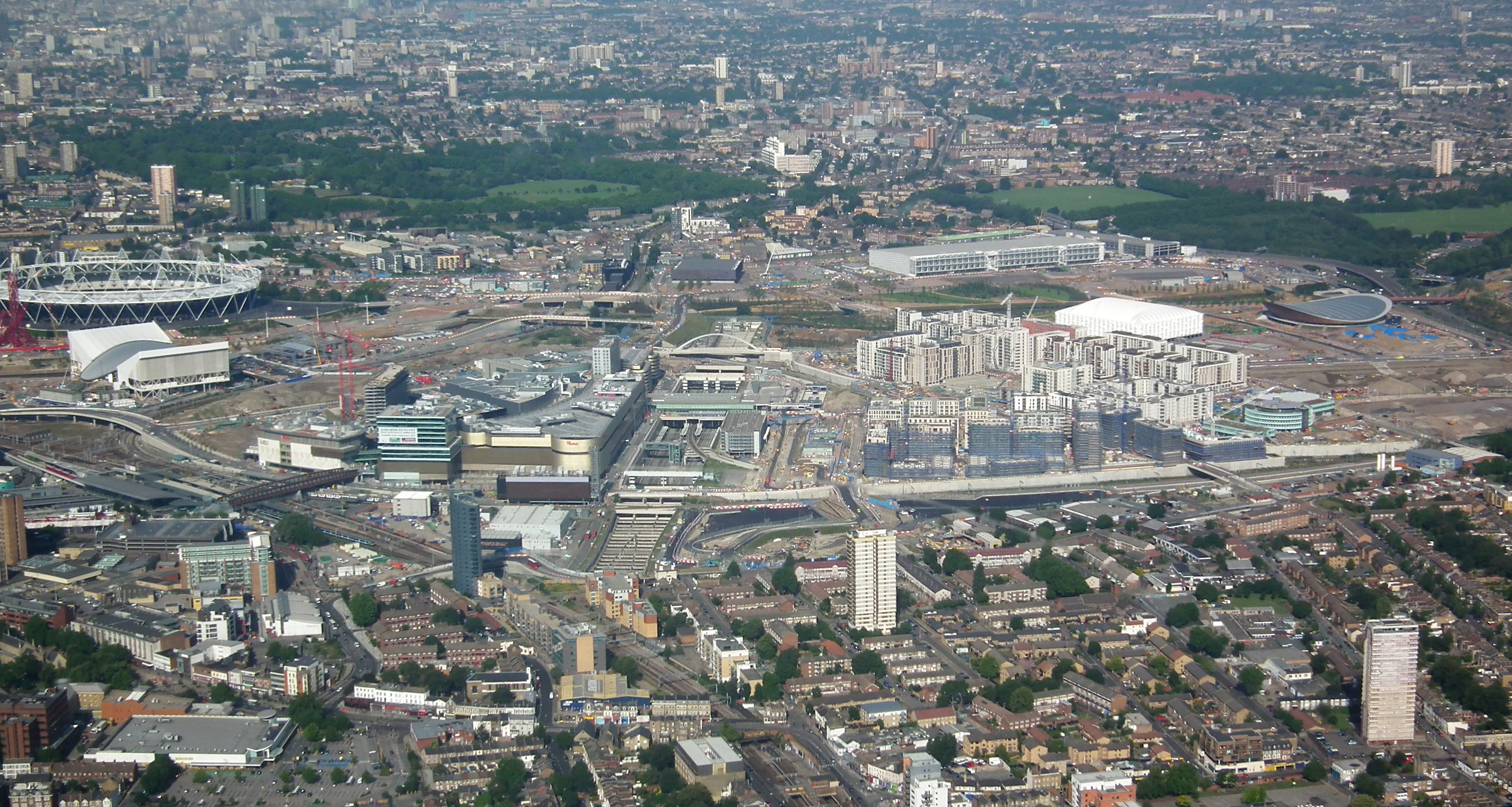 June 2011 - Aerial photo of Westfield Stratford City